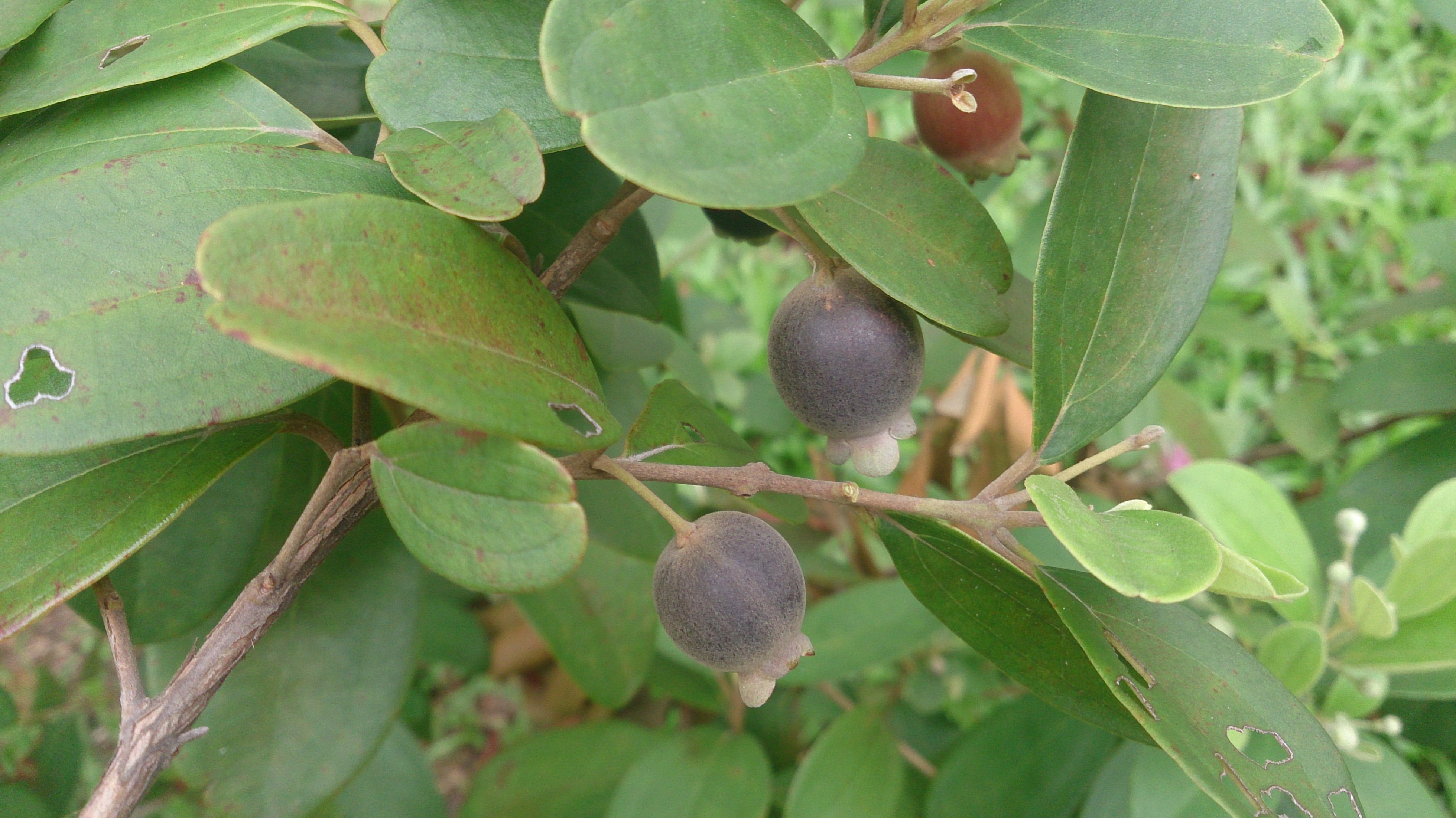 Rhodomyrtus tomentosa. Common names: Rose Myrtle. Downy Myrtle. Hill Gooseberry. Ceylon Hill Cherry. 桃金娘 (Chinese).